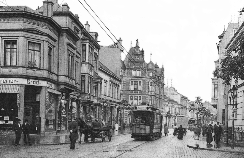 The street Vor dem Steintor in Bremen around 1900, just after the electrification of the streetcar. View from the Sielwallkreuzung, the crossing of the streets Vor dem Steintor, Ostertorsteinweg, Am Dobben and Sielwall.